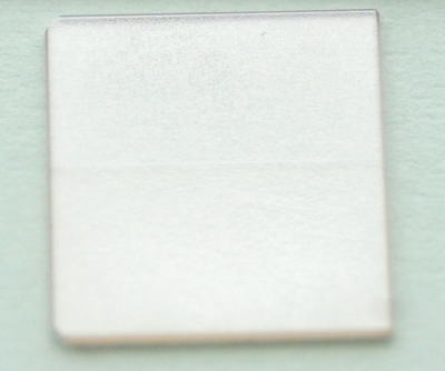 single crystal of synthetic SrTiO3